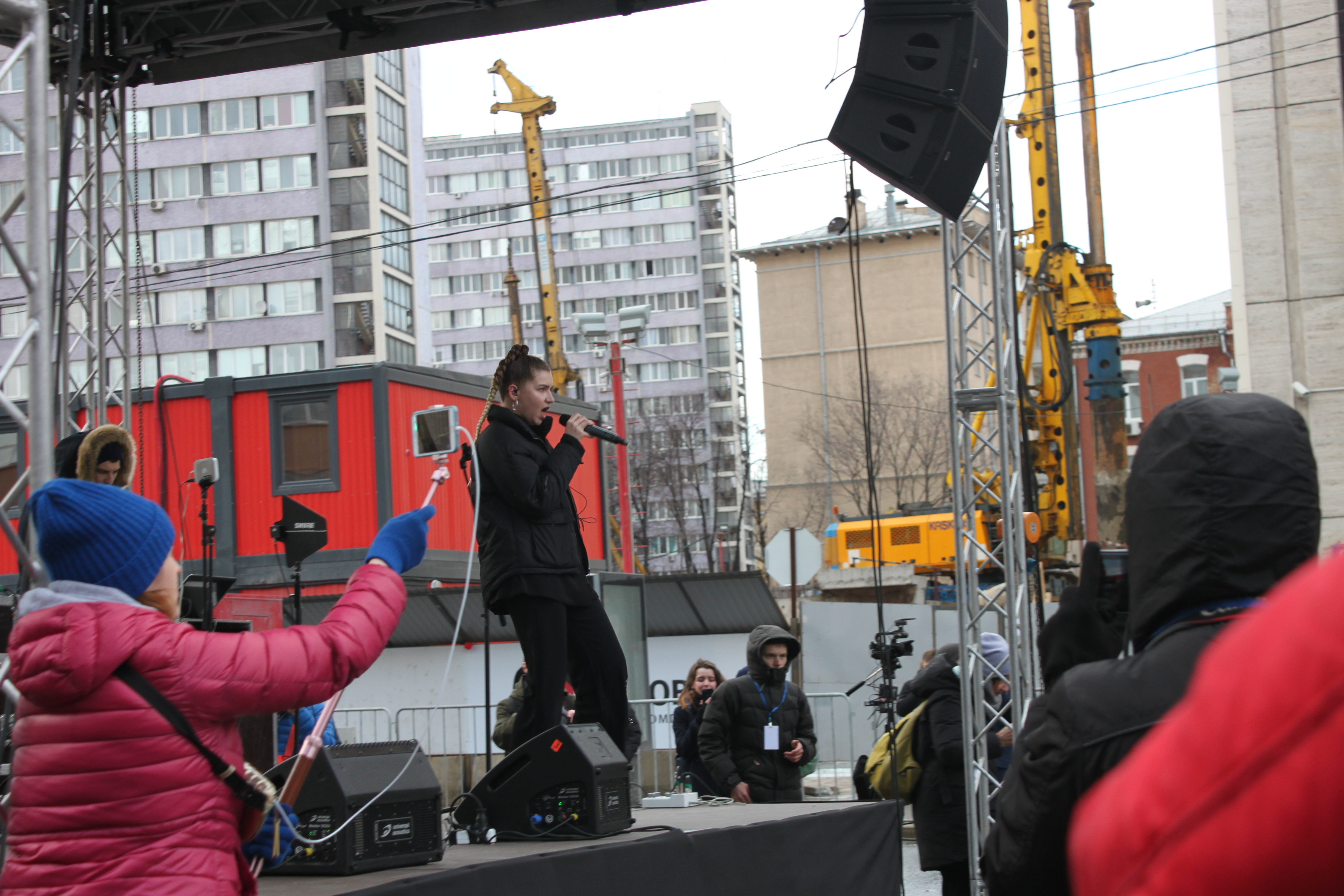 Rally against the isolation of Runet (2019-03-10).